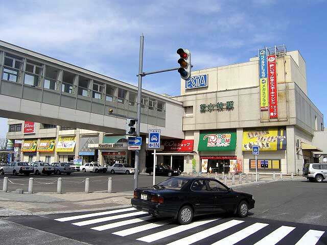 Tomakomai Station in Muroran Main Line, Japan